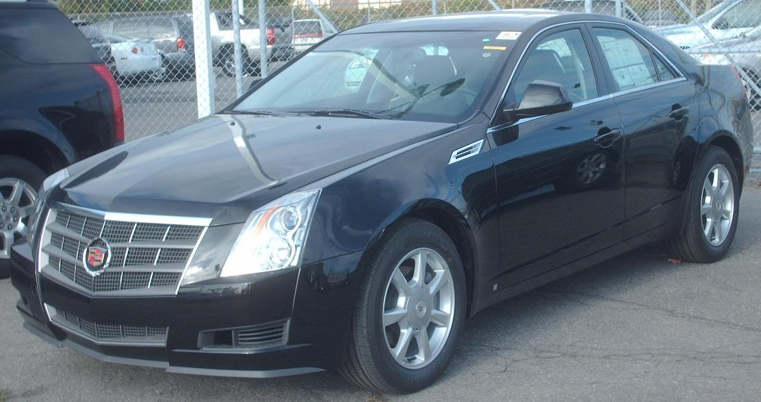 2008 Cadillac CTS photographed in Montreal, Quebec, Canada.